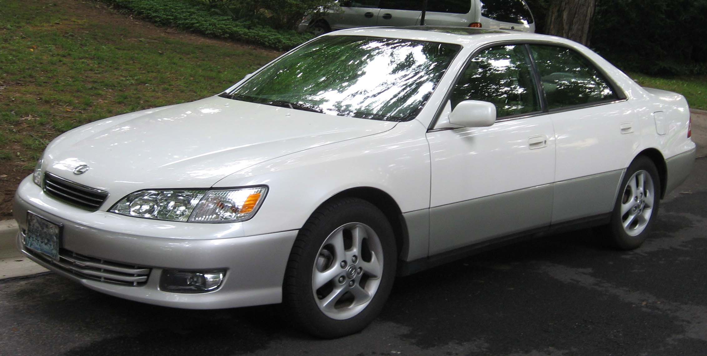 2000-2001 Lexus ES300 photographed in Kensington, Maryland, USA.